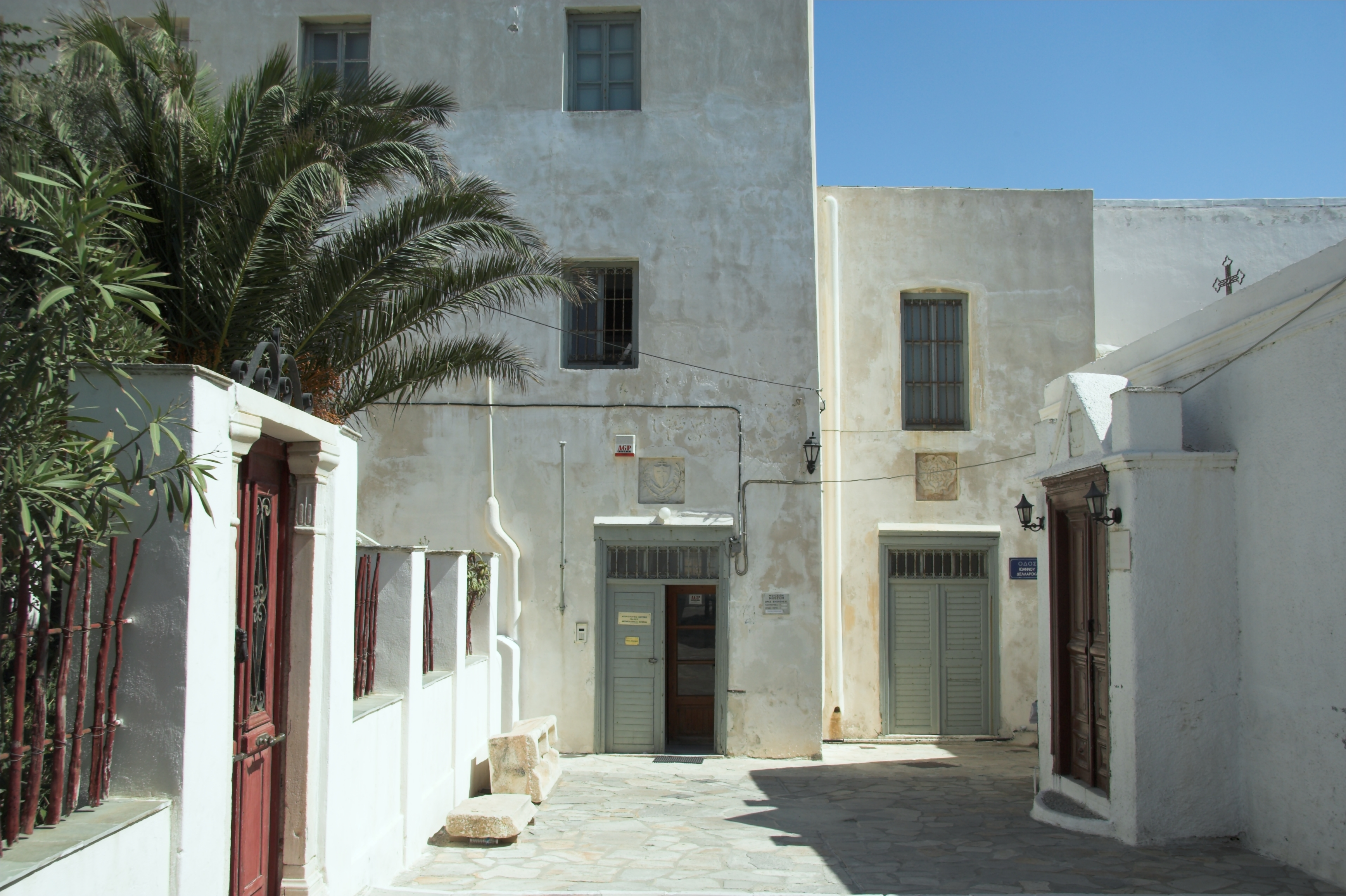 Naxos Archaeological museum is at the top of Kastro, the former acropolis.